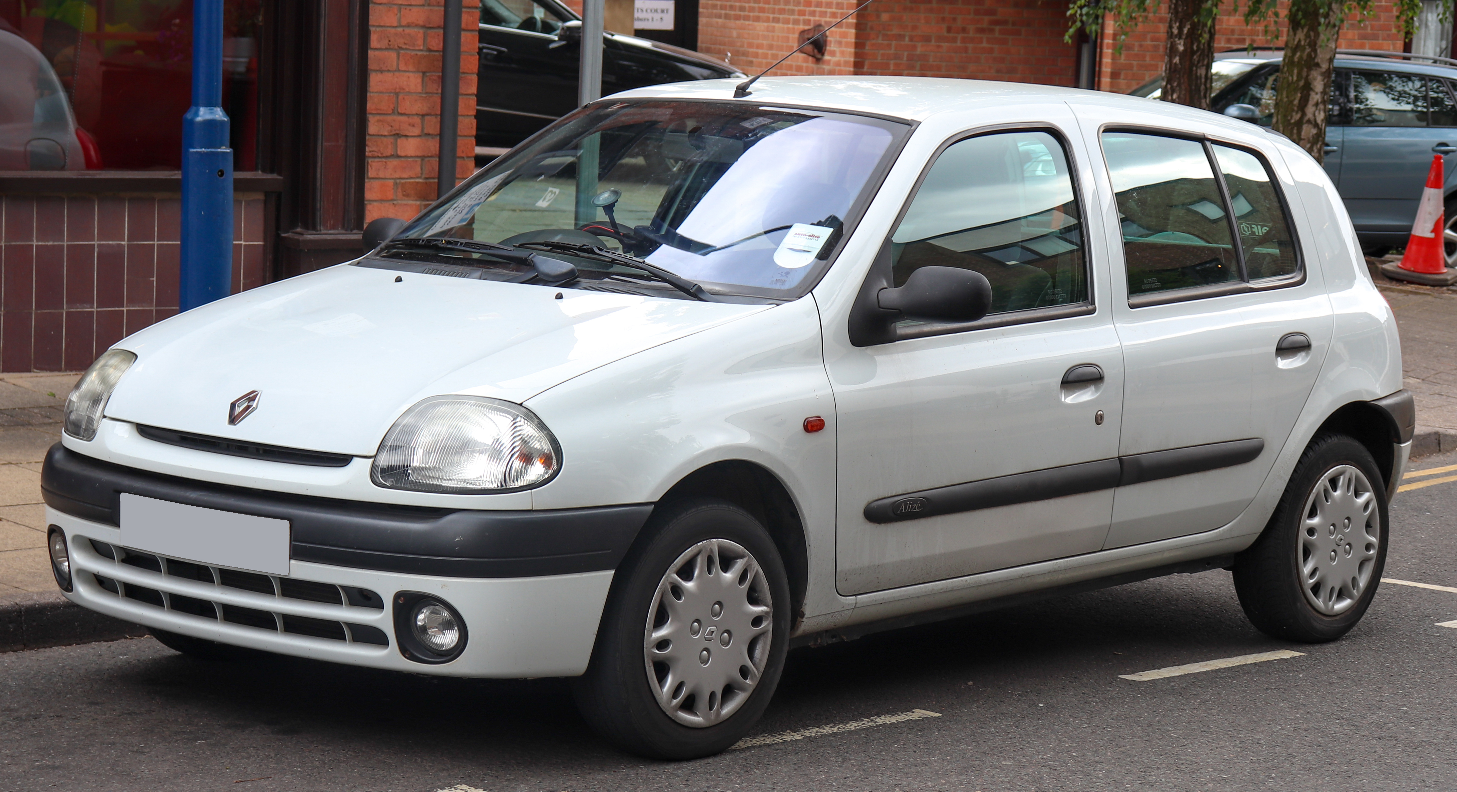 2001 Renault Clio Alize 1.4 Front Taken in Warwick